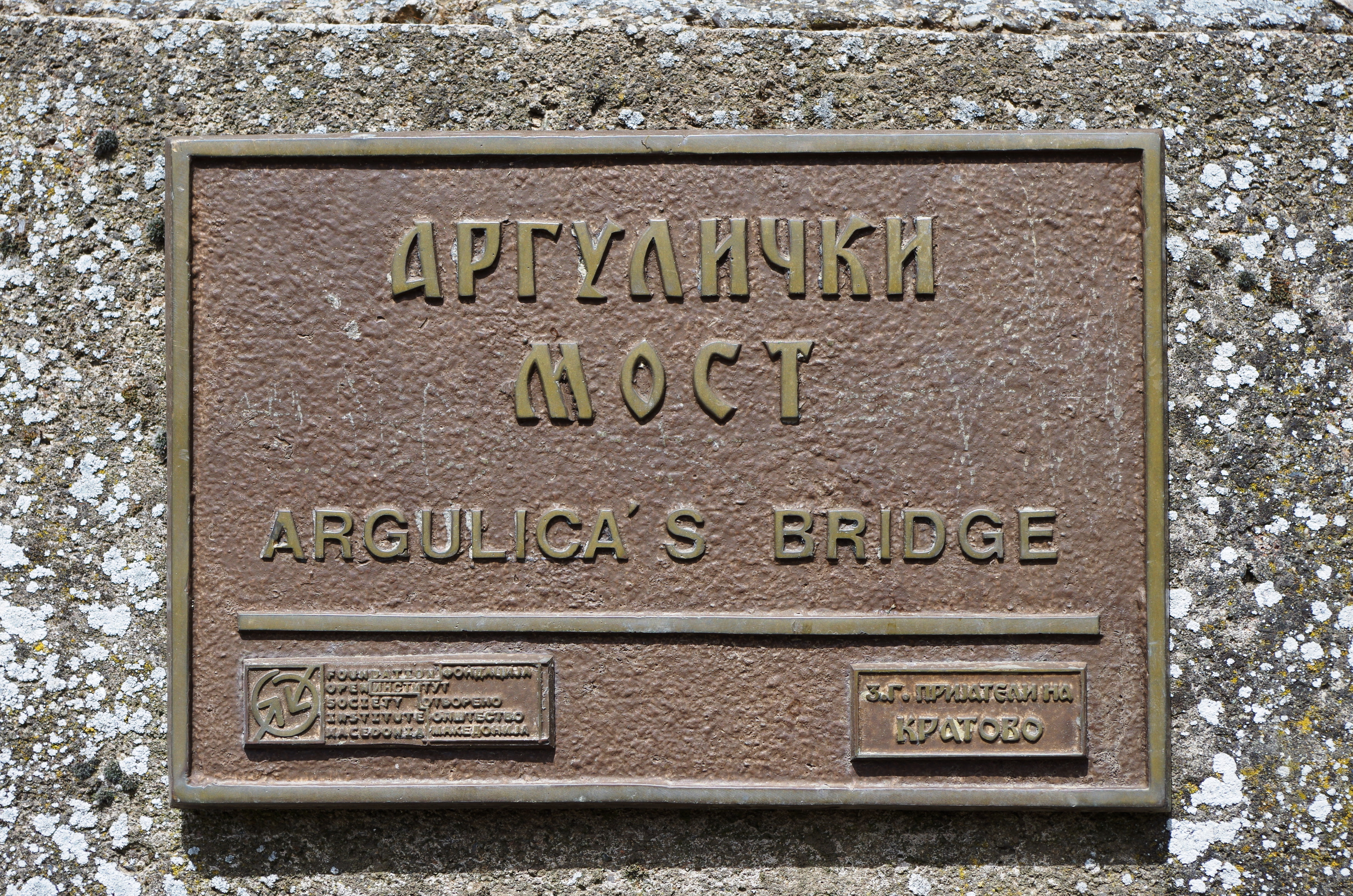 Plate for Argulica’s Bridge